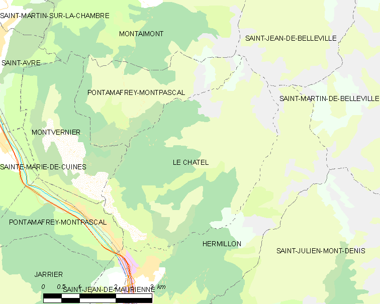 Map of French municipality